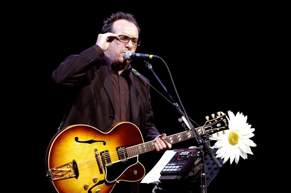 Elvis Costello by Victor Diaz Lamich